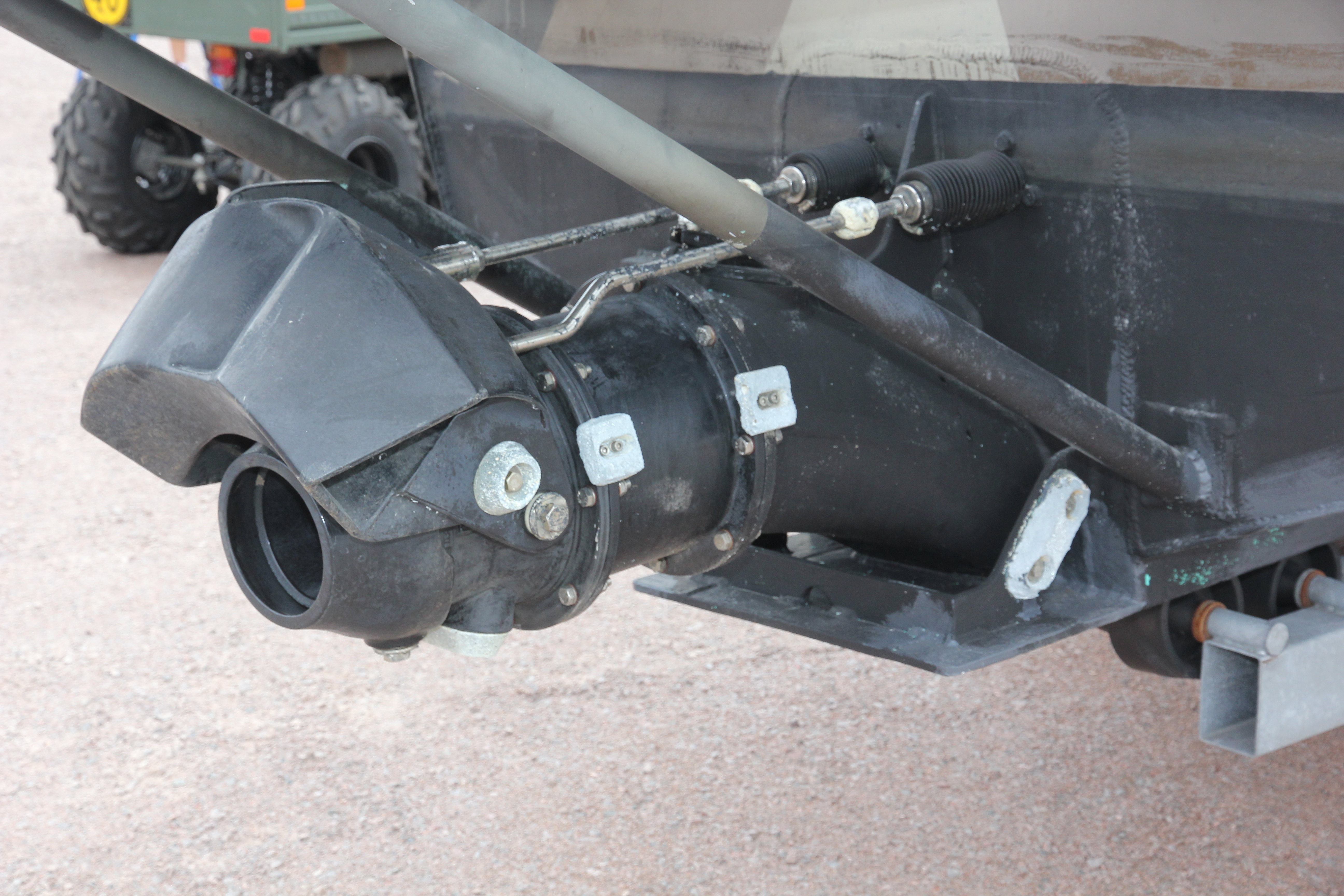 Water jet engine of G class landing craft G111 in Helsinki South harbour during the Finnish Navy 2012 anniversary.